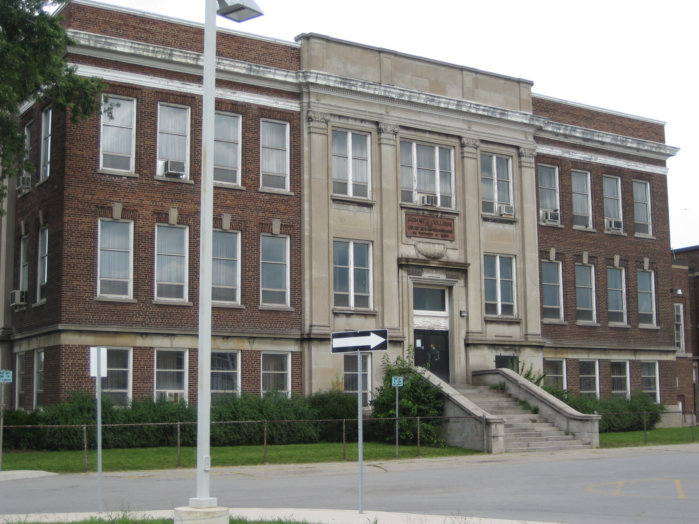 Mohawk College, (Wentworth campus), Hamilton, Canada.